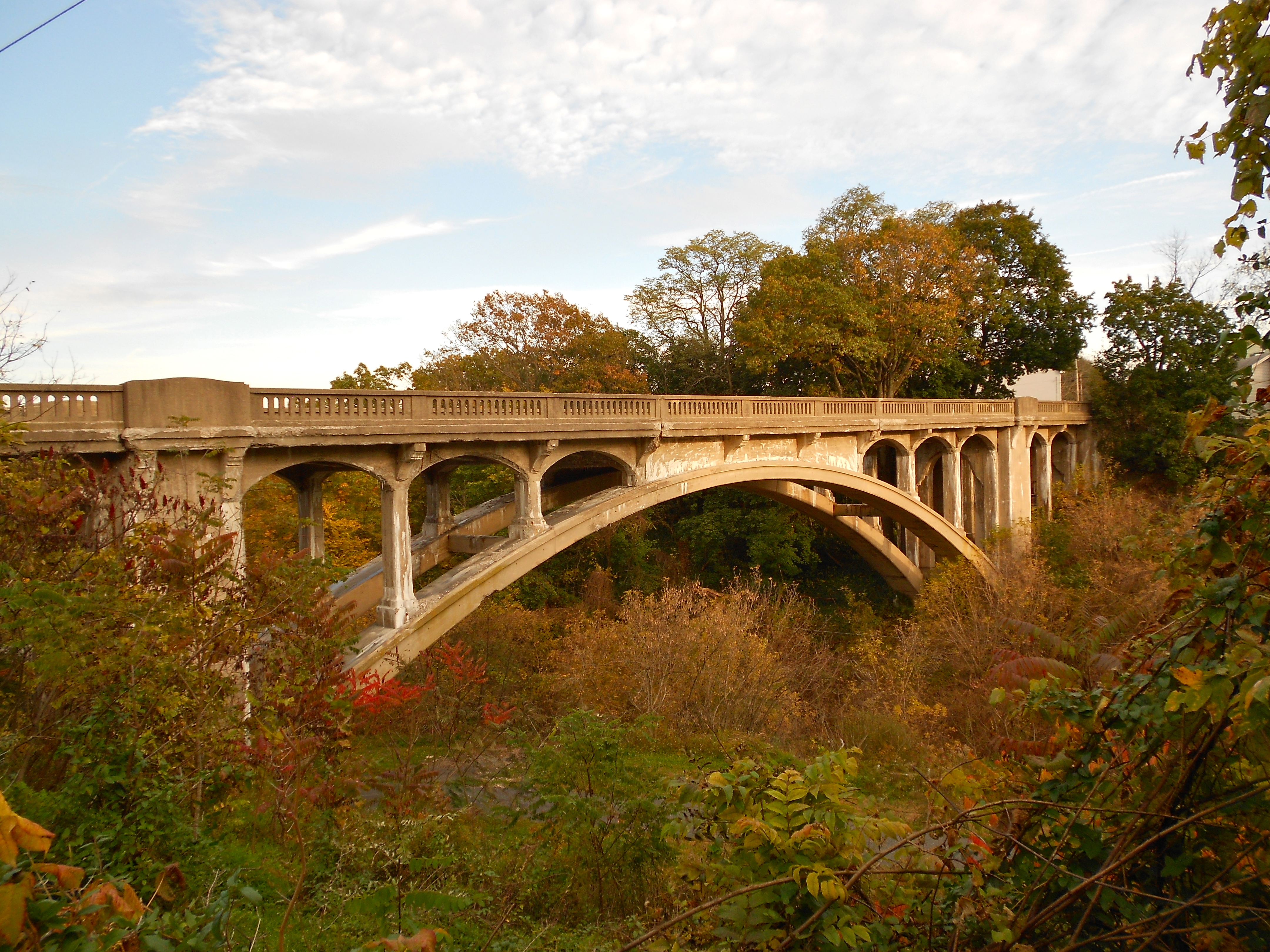 Cold Spring Bridge on the NRHP since June 22, 1988. On 2nd Street over Spring Creek, in North Whitehall and Whitehall Townships, Lehigh County, Pennsylvania.